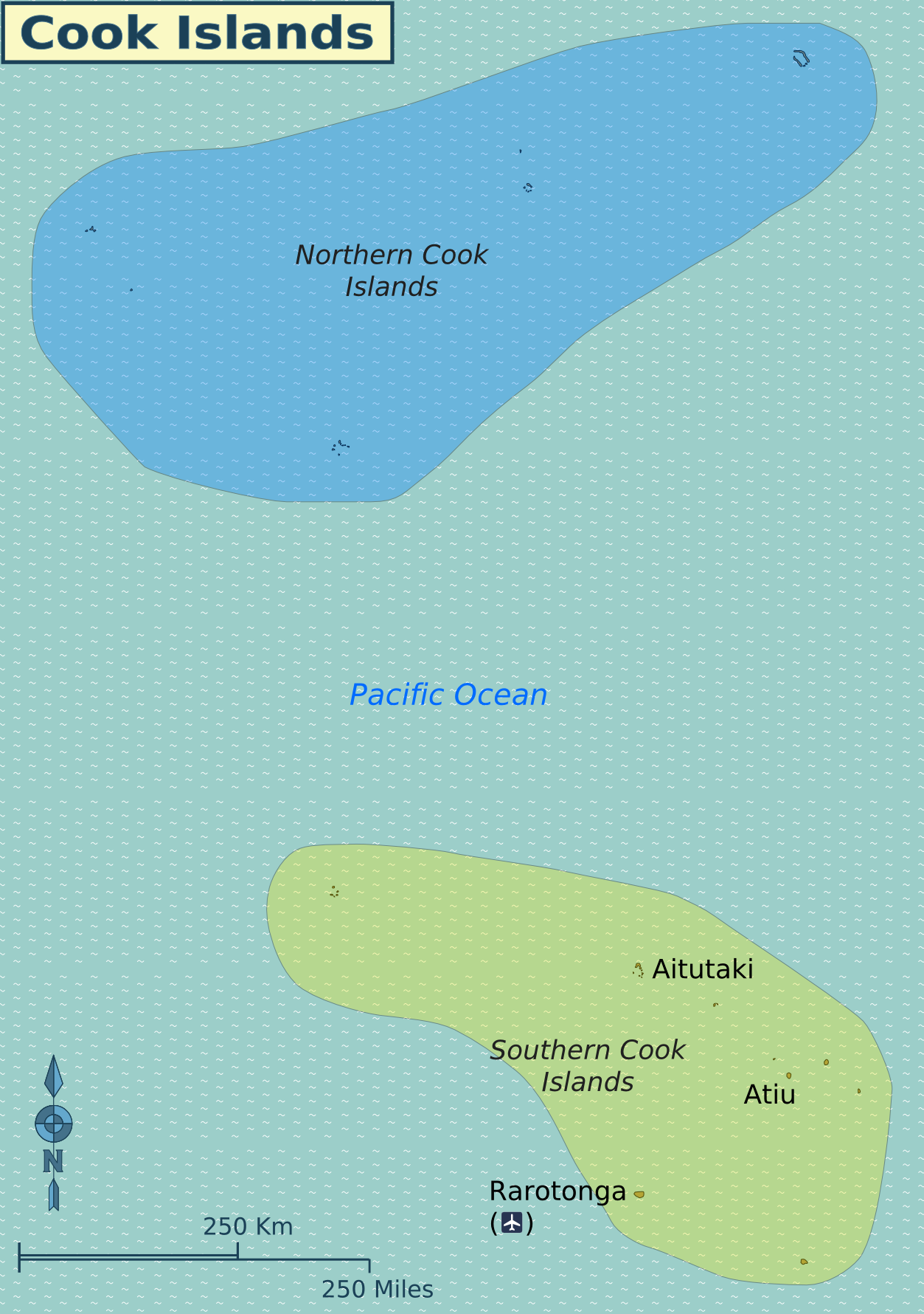 Map of the Cook Islands.